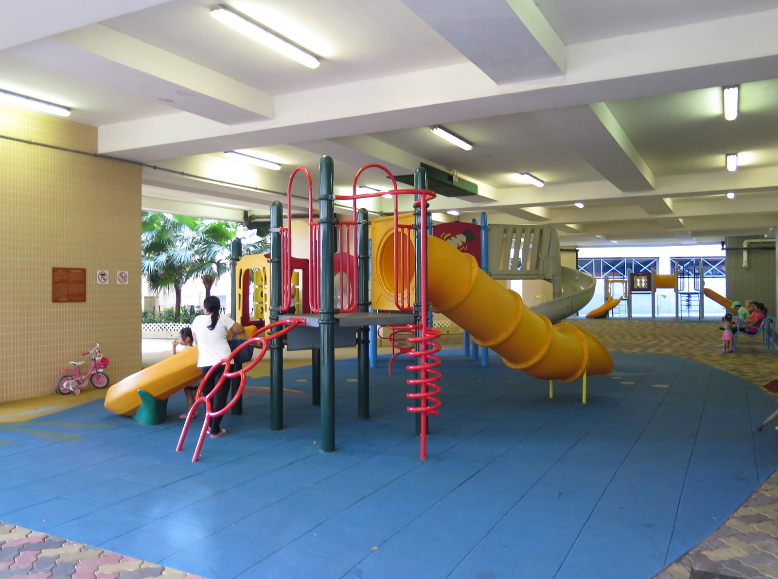 Tung Tao Court Indoor playground